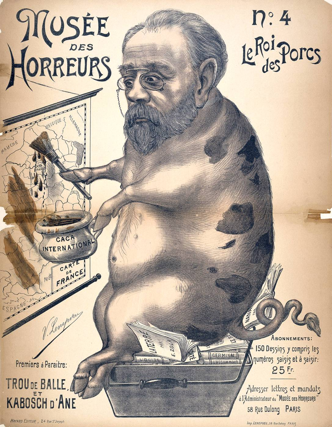 A caricature of Émile Zola "the king of pigs" in the Musée des Horreurs series, in response to the Dreyfus Affair